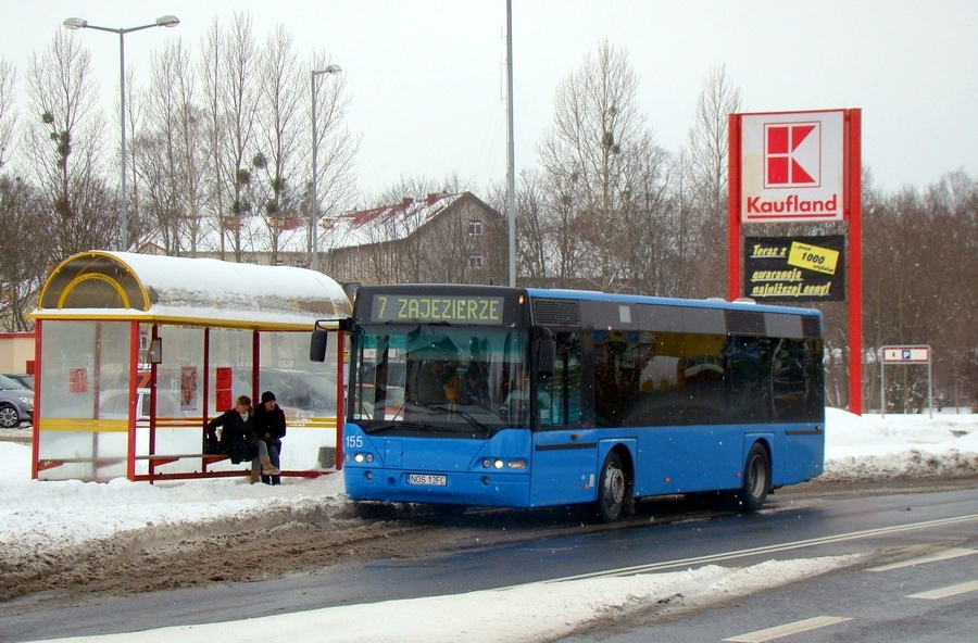 Neoplan N 4411 Centroliner bus (#155, reg. NOS 13FC) in Ostróda, Poland. Built 2000, ZKM Ostróda operator.